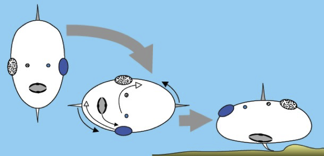 Possible evolutionary scenario of the axial twist hypothesis published by de Lussanet and Osse (2012)